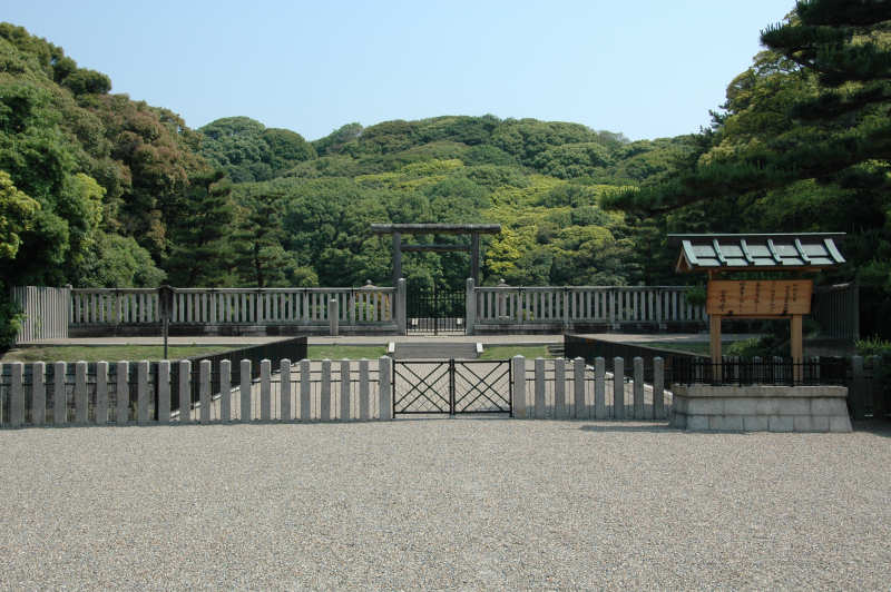 Daisen-kofun in Sakai, Osaka, Japan, wellknown as the tomb of Emperor Nintoku